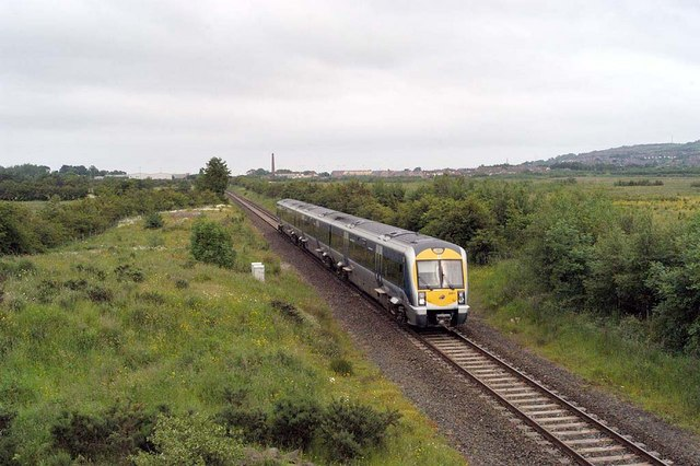 Ballyclare Junction Ballyclare Junction station lies buried under the M8/Larne Road, from the overbridge were this photo of the train approaching from Belfast was made.